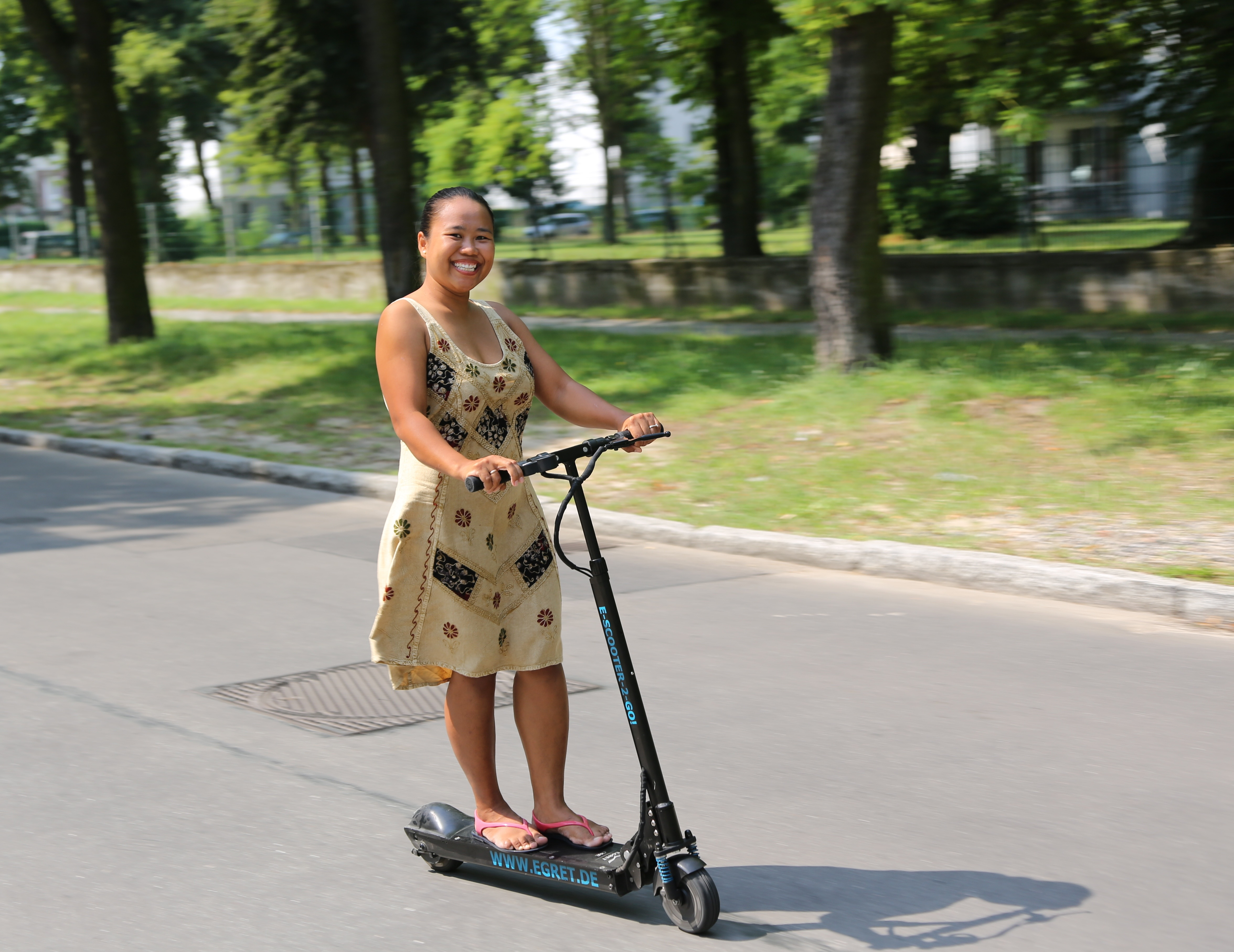 Young female riding the Egret One through the streets of Berlin